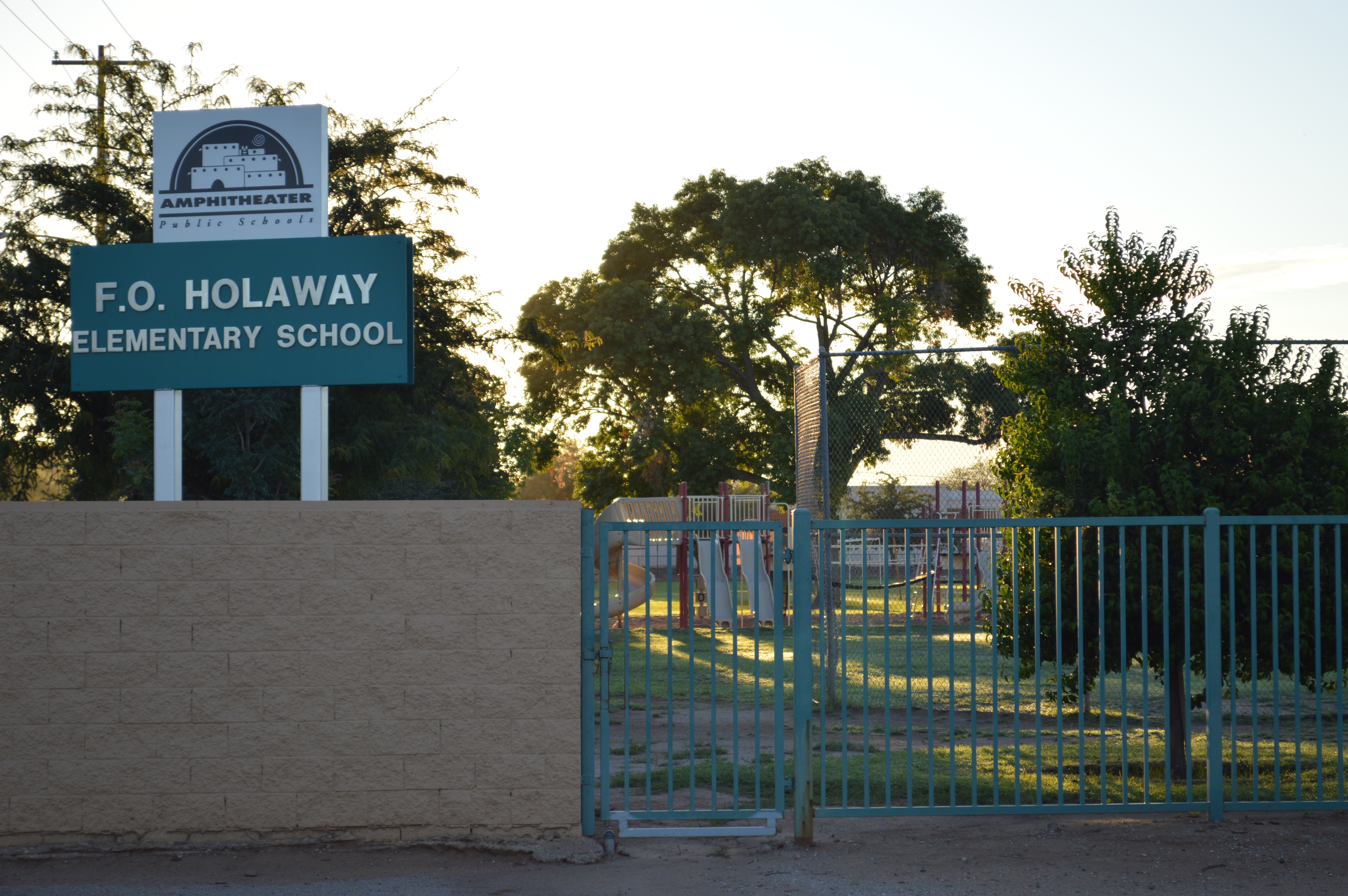 The front sign on Prince Road and part of the playground of F.O. Holaway Elementary School in Tucson, Arizona.